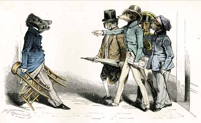 copy of page XLVI from Métamorphoses du Jour and not from "The Public and Private Life of Animals"